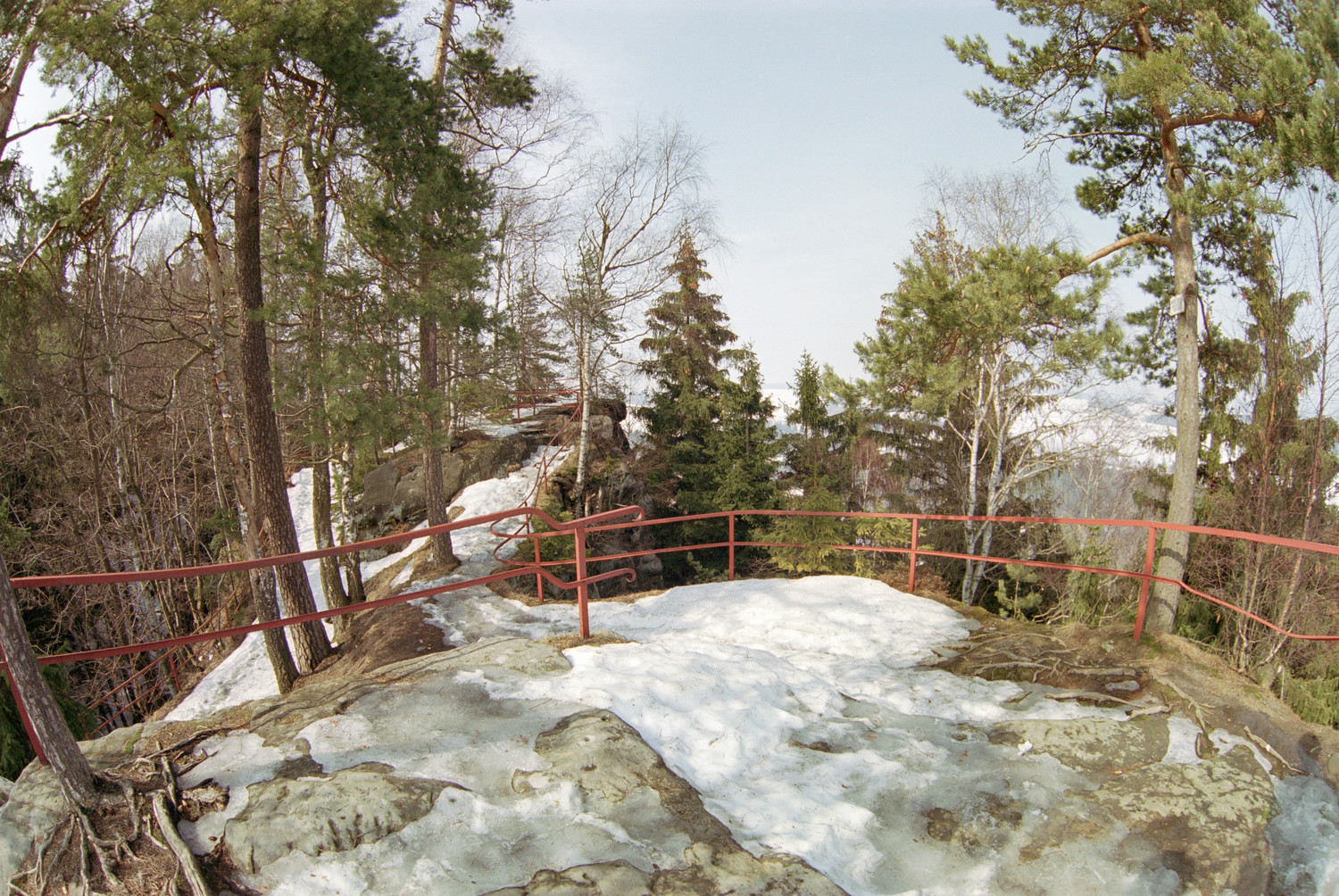 the old castle Adršpach (in german language: Burg Adersbach) in Czech Republic, it's on the mountain Starozámecký vrch (Altschlossberg) near the village Adršpach there are only few left-overs of this castle left it's _not_ the same as on picture Image:Schloss Adersbach.jpg, which is inside the village